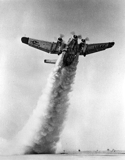 A Northrop YC-125 "Raider" trimotor search-and-rescue aircraft performs a Jet Assisted Take-Off.